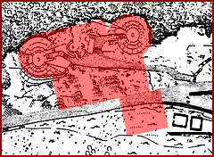 Signal Hill Battery is now Cable Car on Gibraltar - showing size versus the old plans